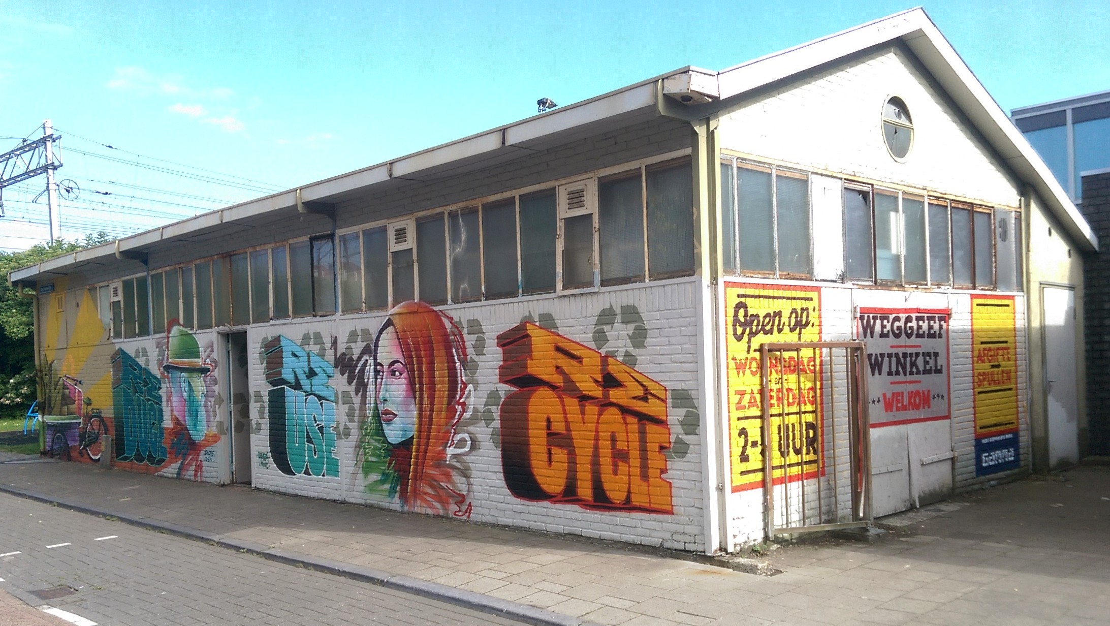 Freeshop in a squat at 2e Daalsedijk, Utrecht, NL